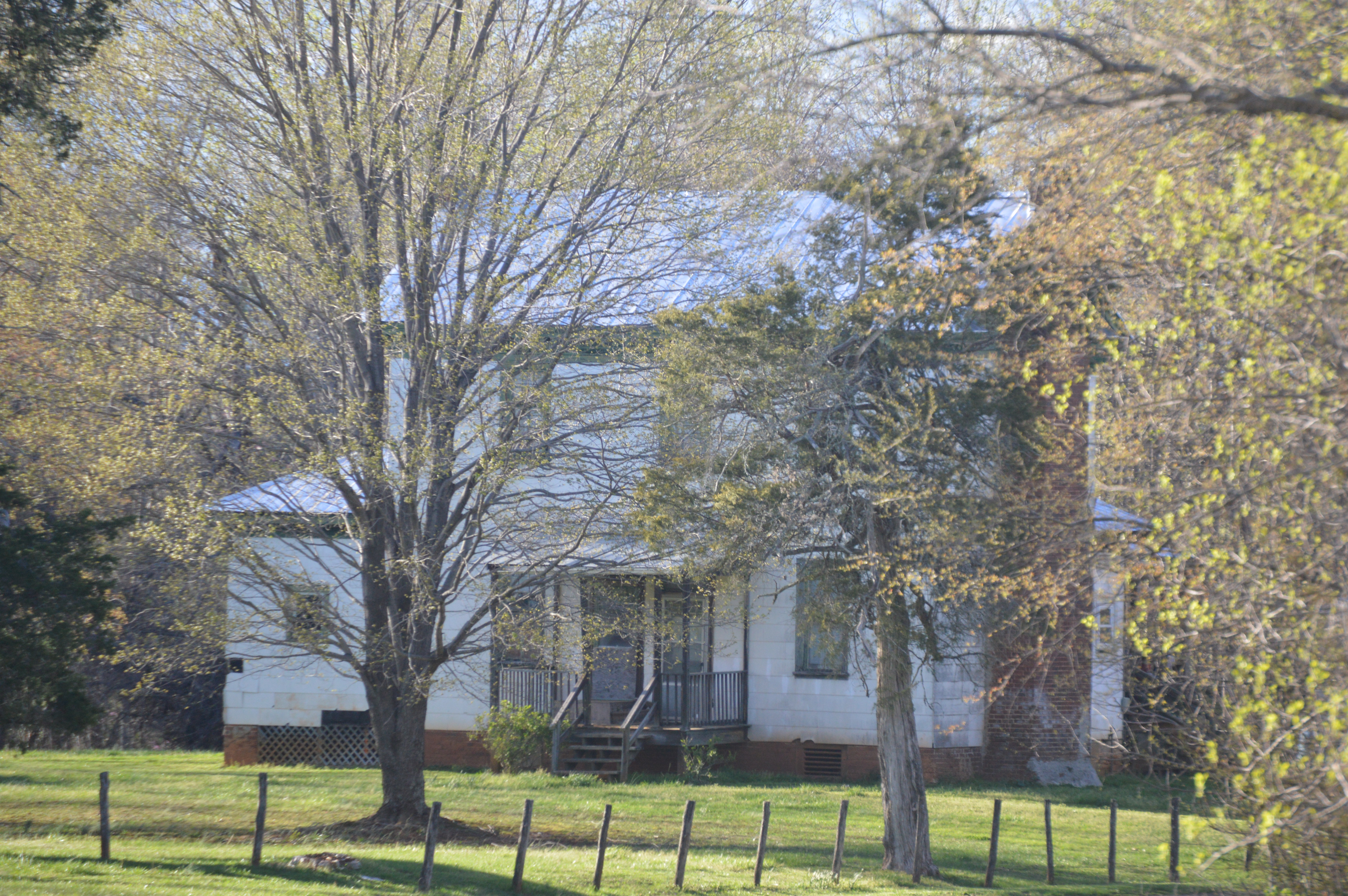 Roadside view of Mount Airy, located on Chellis Ford Road southwest of Leesville in Bedford County, Virginia, United States. Built in 1797, it is listed on the National Register of Historic Places.